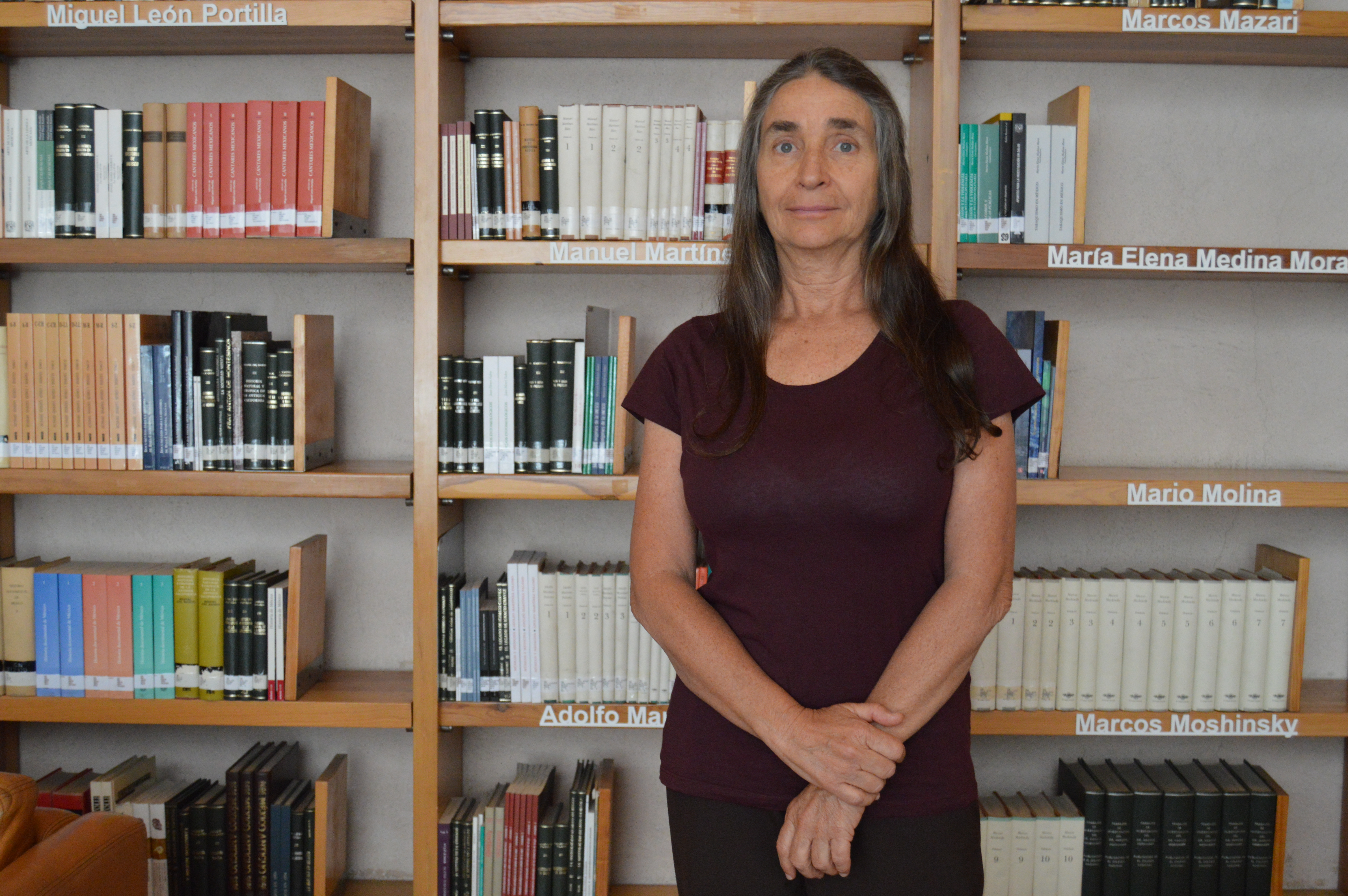 Mexican biologist Julia Carabias Lillo.